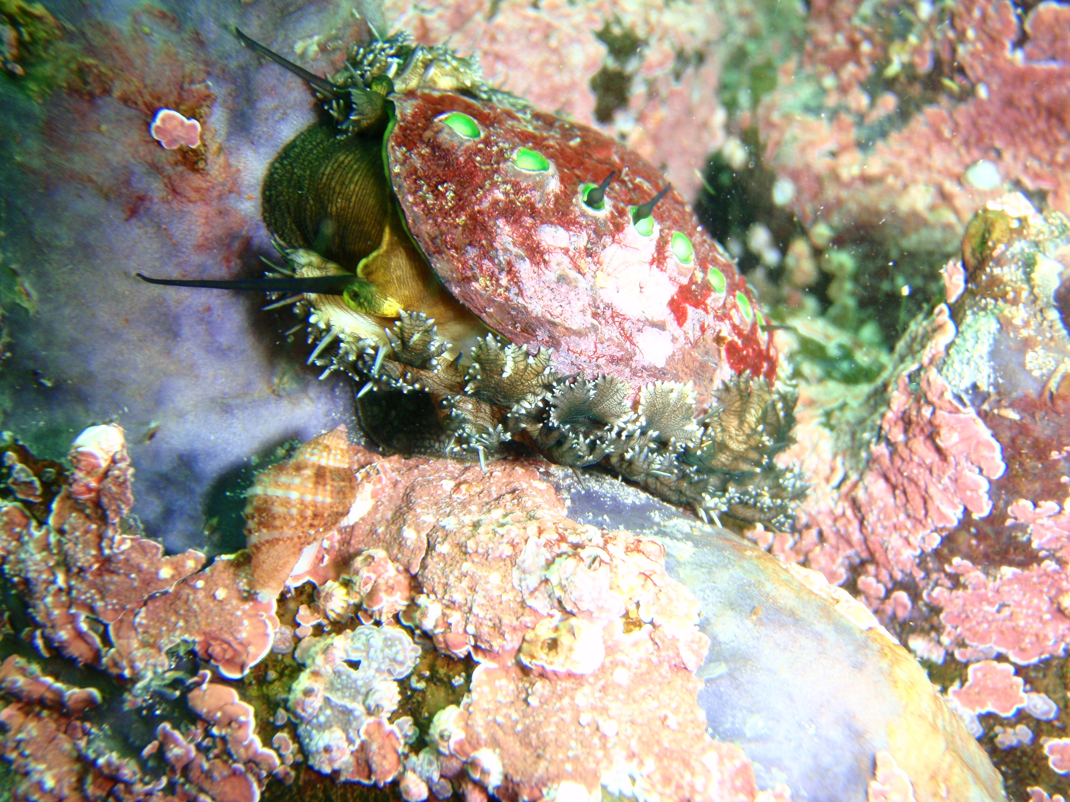 Venus ear at Lorry Bay south of Gordon's Bay on the east side of False Bay